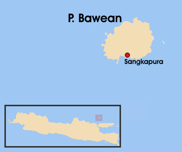 Licensing